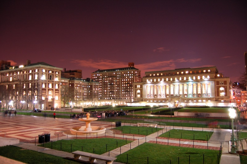 Columbia University in the City of New York Morningside Heights Campus. Left to right: Hamilton Hall, Hartley Hall, Wallach Hall, John Jay Hall, Butler Library.